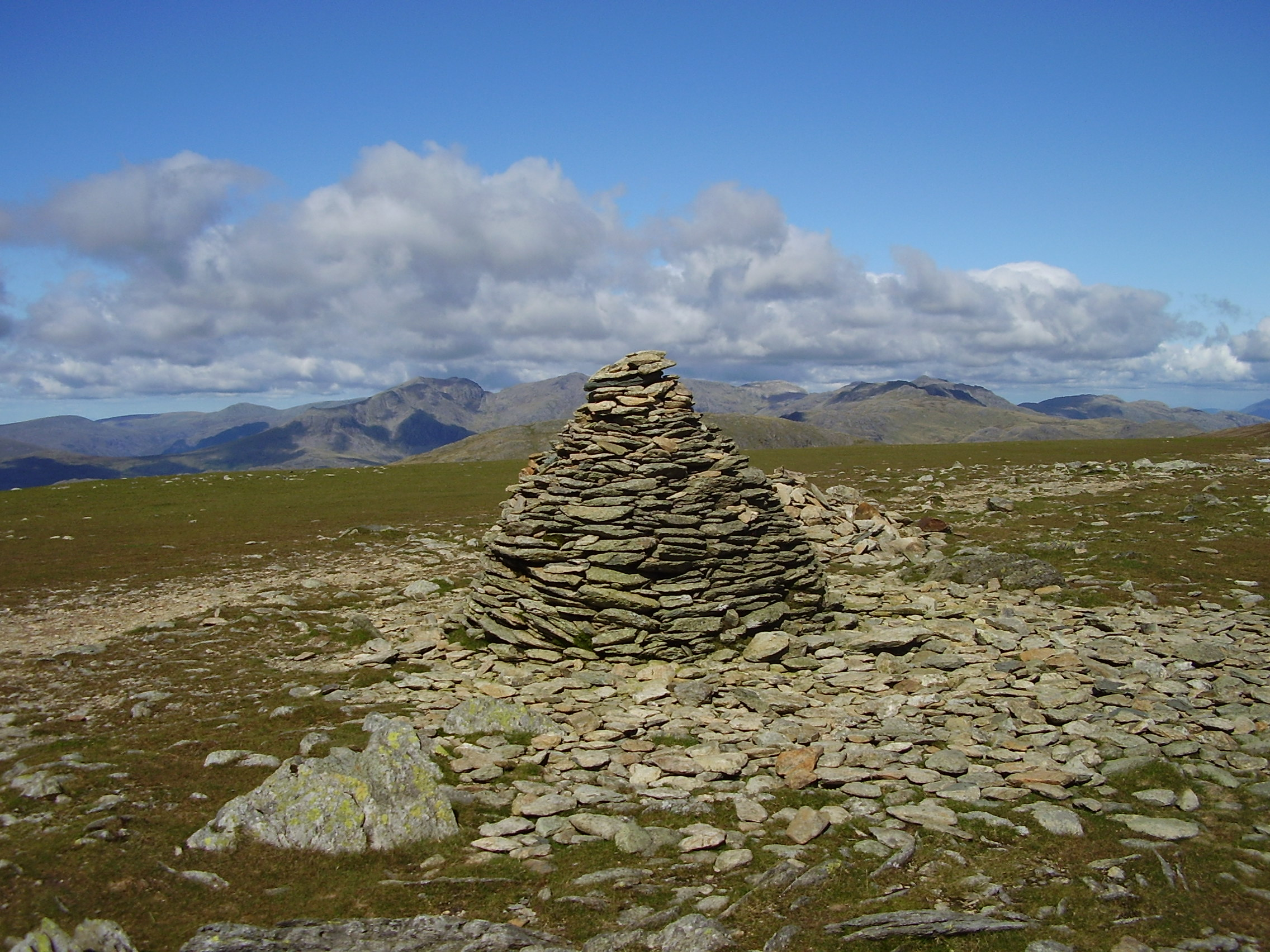 The summit of Brim Fell amongst the Furness Fells of Lancashire